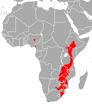 Bushveld Horseshoe Bat (Rhinolophus simulator) range